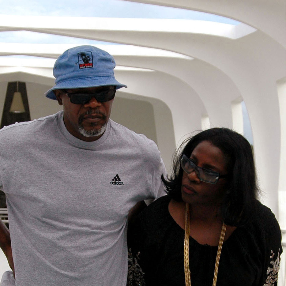 051105-N-5539C-003 Pearl Harbor, Hawaii (Nov. 5, 2005) - Actor Samuel L. Jackson and his wife LaTanya during a tour of Naval Station Pearl Harbor. The actor was in Honolulu to receive the International Achievement in Acting Award from the Louis Vuitton Hawaii International Film Festival. U.S. Navy photo by Journalist 2nd Class Corwin M. Colbert (RELEASED)